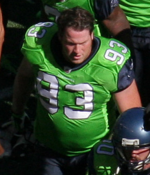 Seattle Seahawks players, 2009